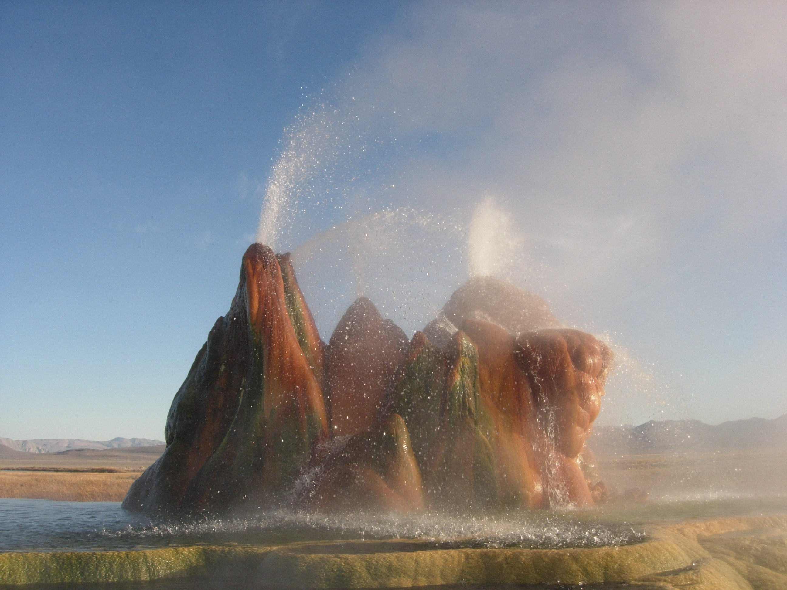 Fly Geyser is located north of Gerlach, Nevada. It is currently on private property.